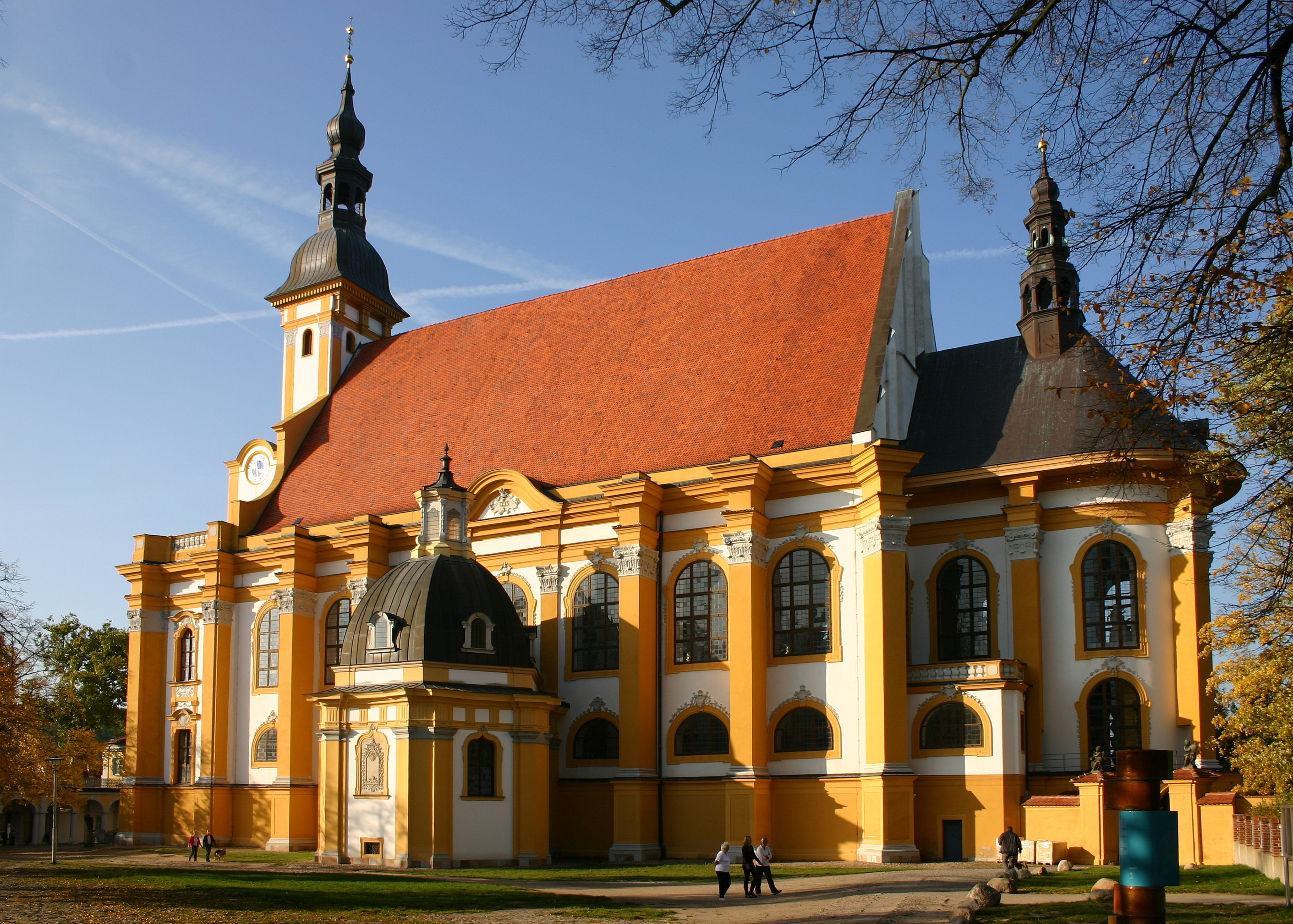 Church of Neuzelle abbey from south east